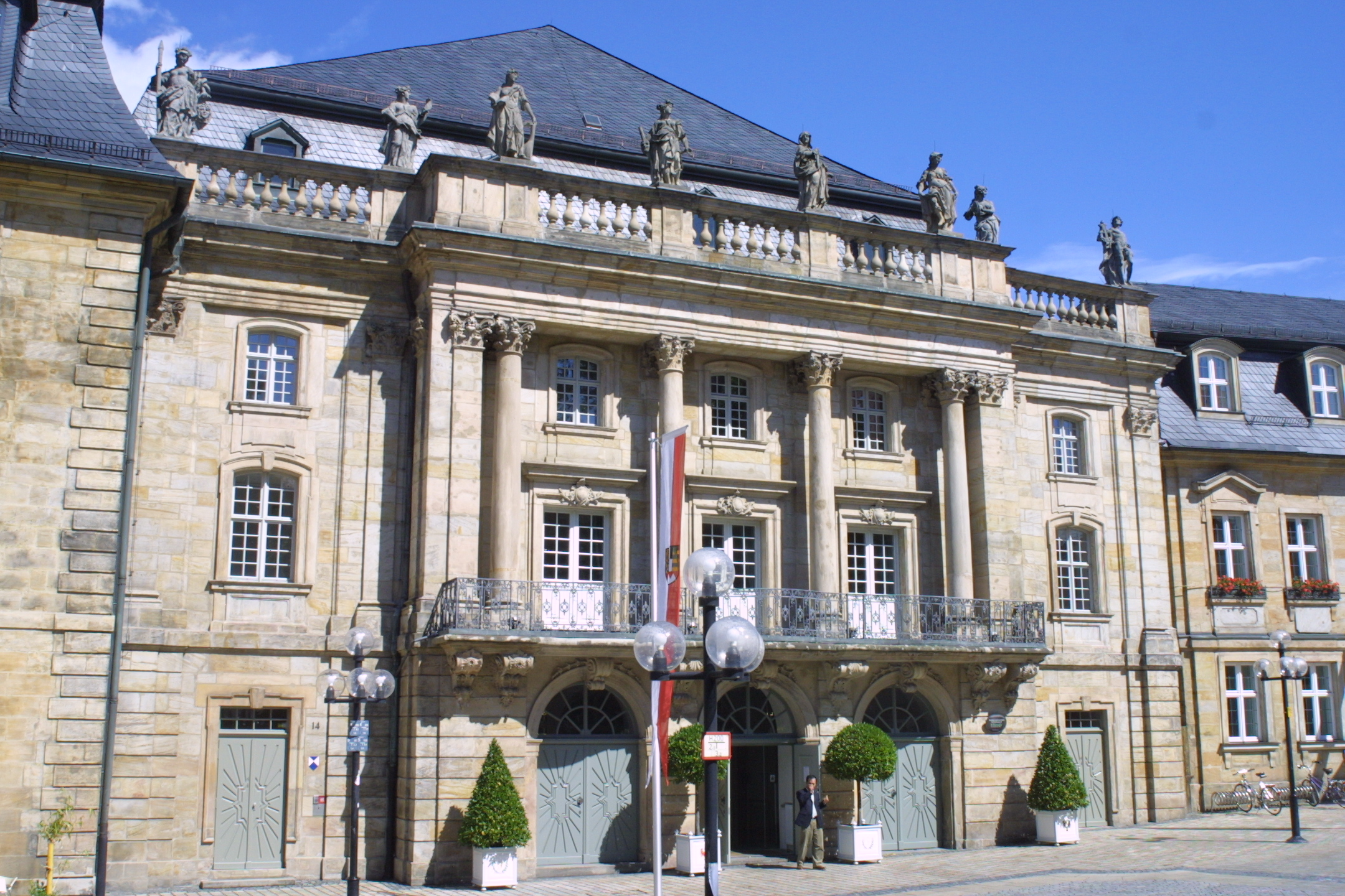 Margravial Opera House in Bayreuth, Germany: front view.